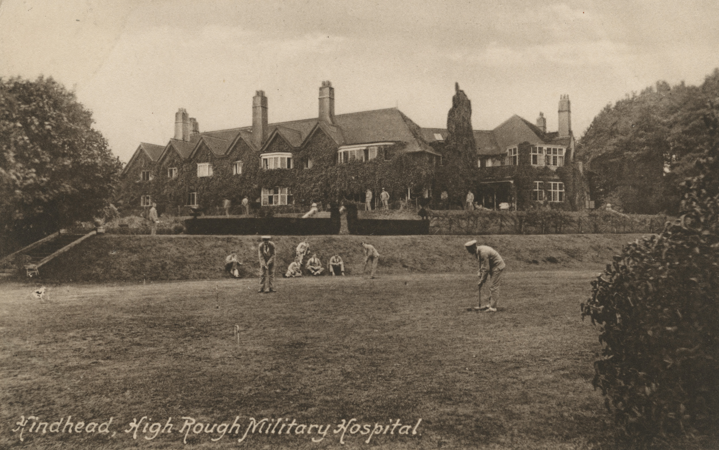 No known copyright restrictions. Please credit UBC Library as the image source. For more information, see Creator: Unknown Date Created: [between 1910 and 1919?] Source: Original Format: University of British Columbia. Library. Rare Books and Special Collections. Arkley Croquet Collection Permanent URL